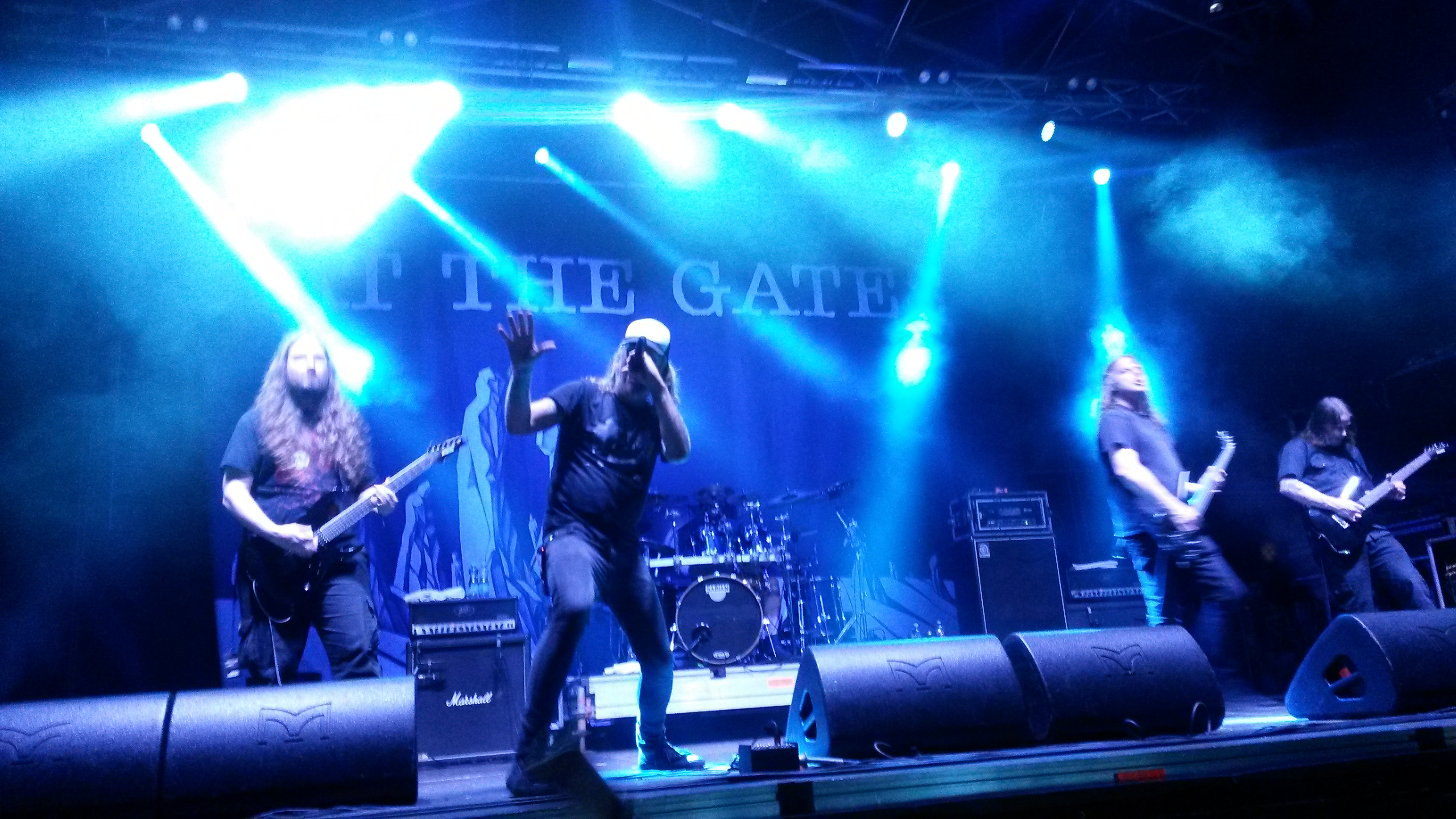 Swedish death metal band At The Gastes at Hard Rock Laager festival 2016